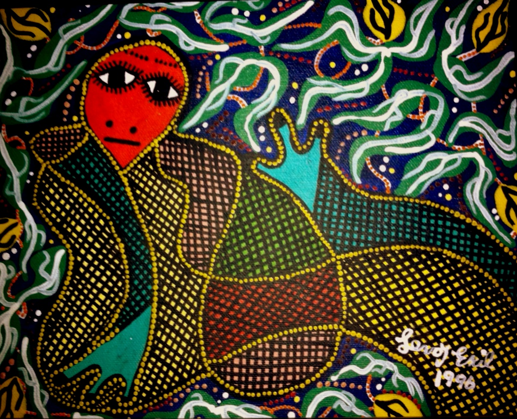 A 1996 8x10 painting of a red faced Loa by Haitian painter Levoy Exil. Acrylic on Canvas.